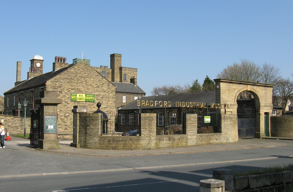 The entrance to the Bradford Industrial Museum (former Moorside Mills) on Moorside Road Eccleshill / Fagley, Bradford, W Yorks.